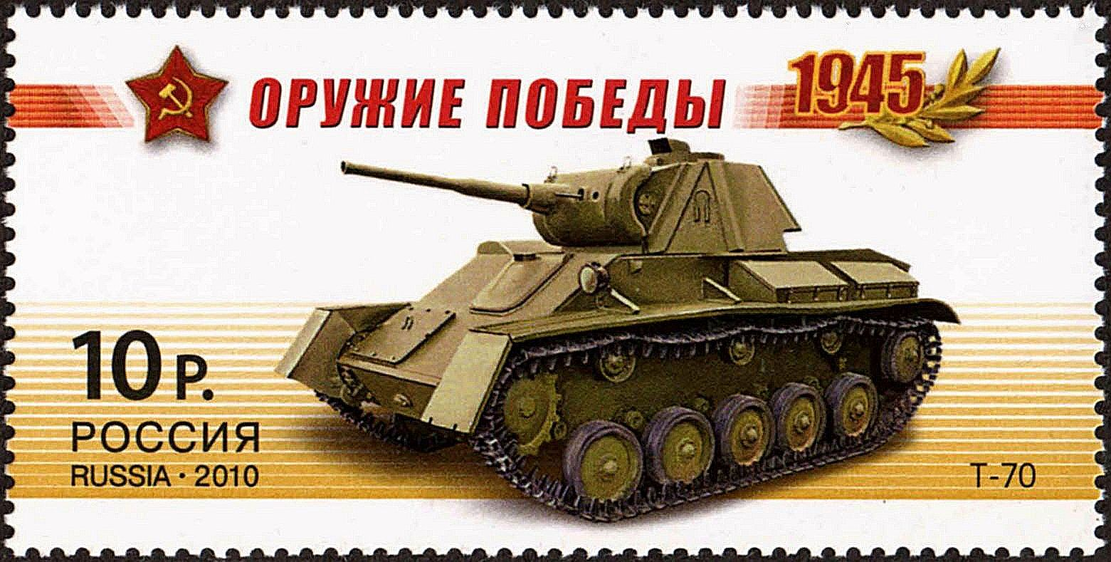 The weapon of the Victory (the ongoing stamp series). Issue II: Tanks. The Soviet light tank T-70. 1941. The stamp of Russia, 10.00 Rubles, 20 April 2010, PTC Marka Catalogue No 1405, Michel No 1637. Coated paper. Offset printing, multicoloured. Perforation: comb 13½. Size of the stamp: 65×32.5 mm. Print run: 675,000.